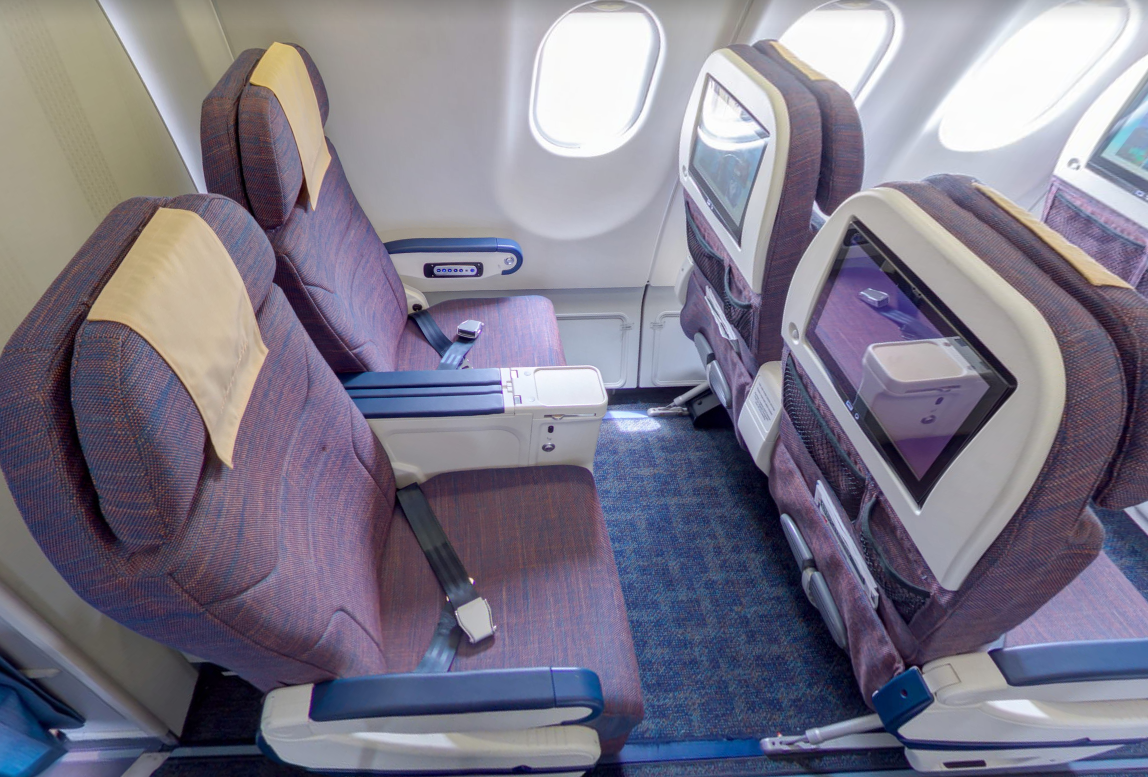 Philippine Airlines premium economy in the newly-reconfigured Airbus A330-300 in Tri-class configuration